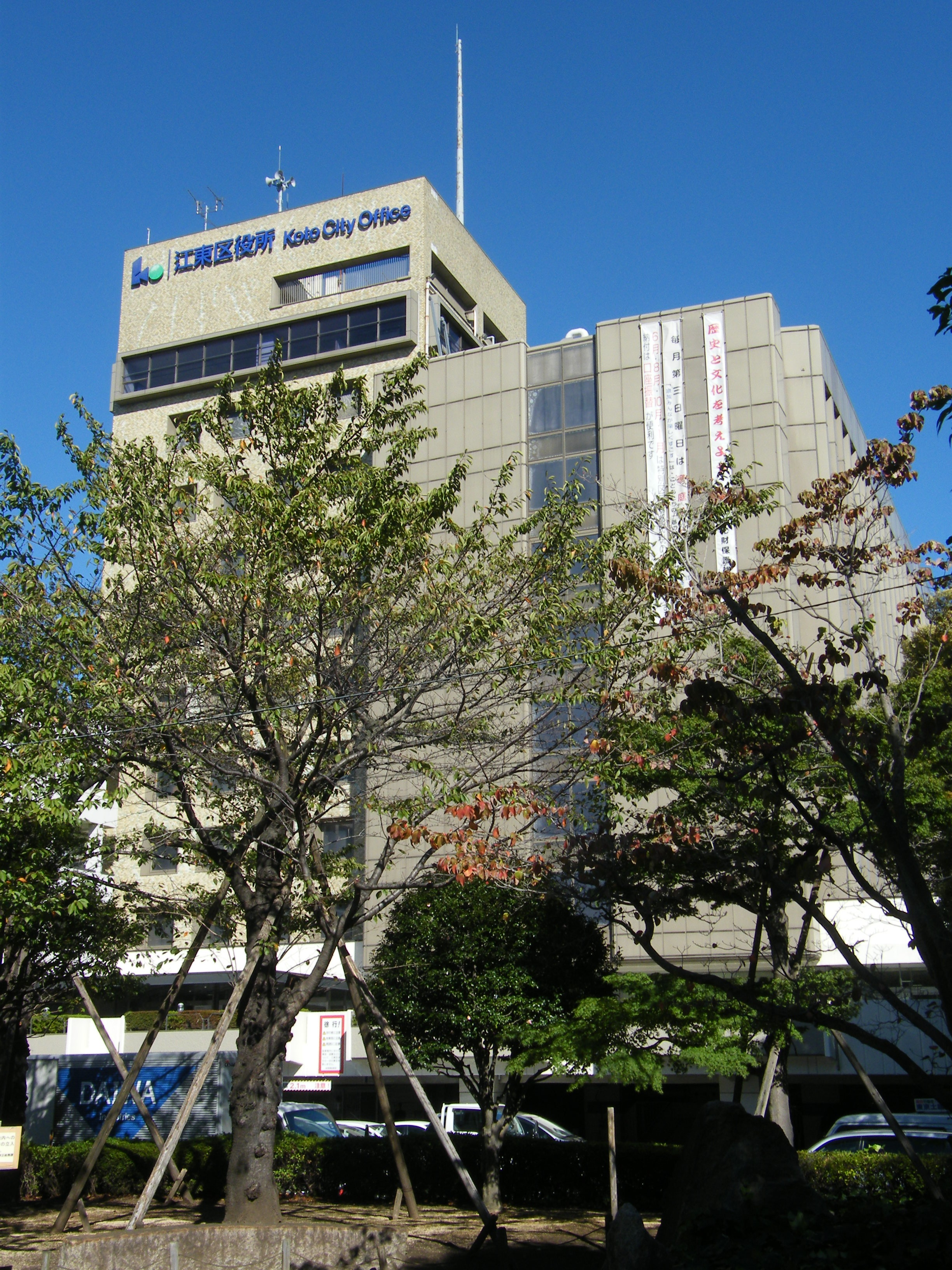 The main Koto Ward office located in Toyo, Koto-Ku